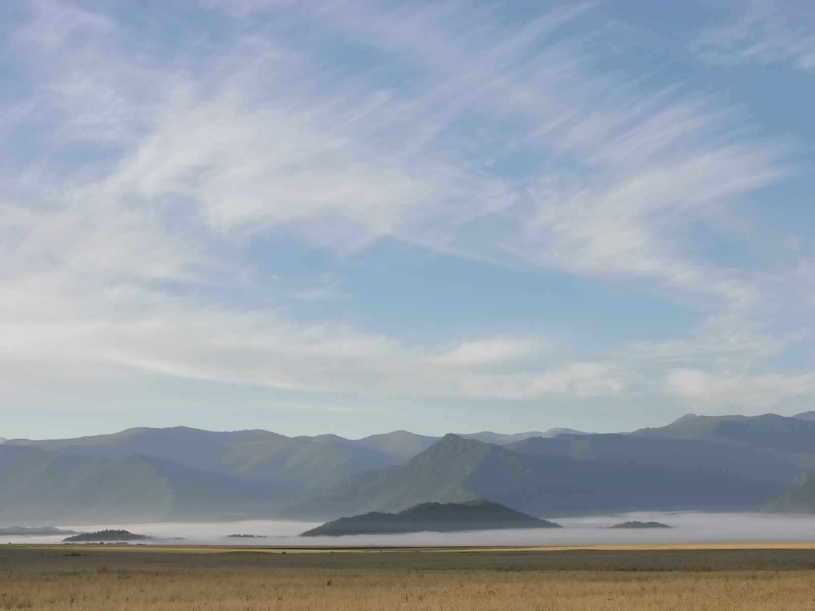 Uimon Steppe. Morning. Low clouds over the Katun River.